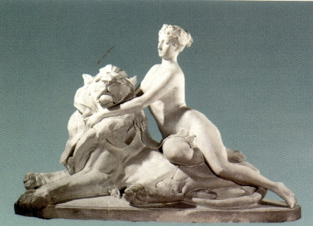 This image was provided to Wikimedia Commons by Biblioteca Museu Víctor Balaguer as part of an ongoing cooperative GLAMWIKI project with Amical Wikimedia. The artifact represented in the image is part of the permanent collection of Biblioteca Museu Víctor Balaguer. This work is free and may be used by anyone for any purpose. If you wish to use this content, you do not need to request permission as long as you follow any licensing requirements mentioned on this page.